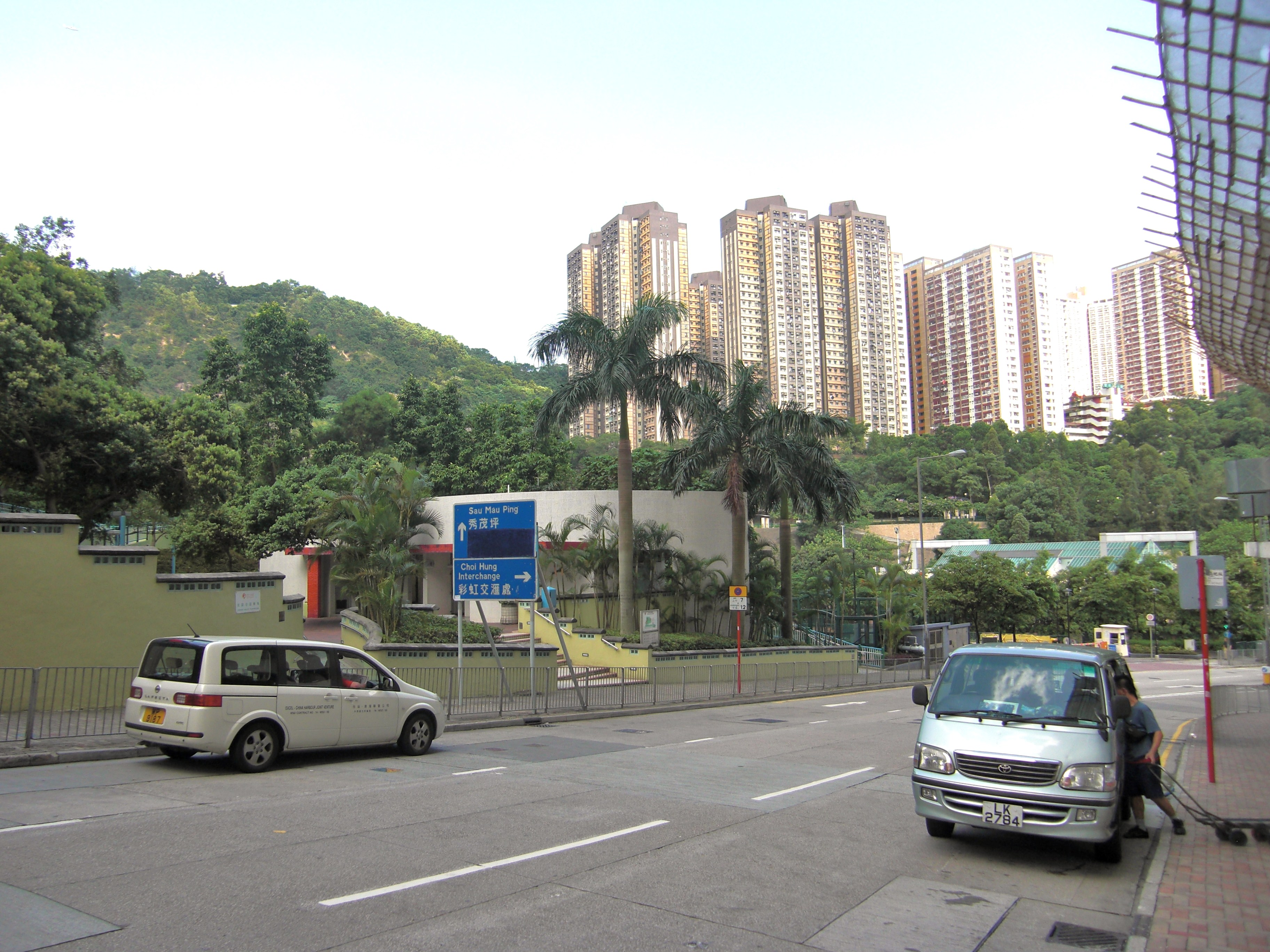 A view of Jordan Valley Playground Phase 1 from Choi Ha Road towards the west. Lok Nga Court stands in the background.